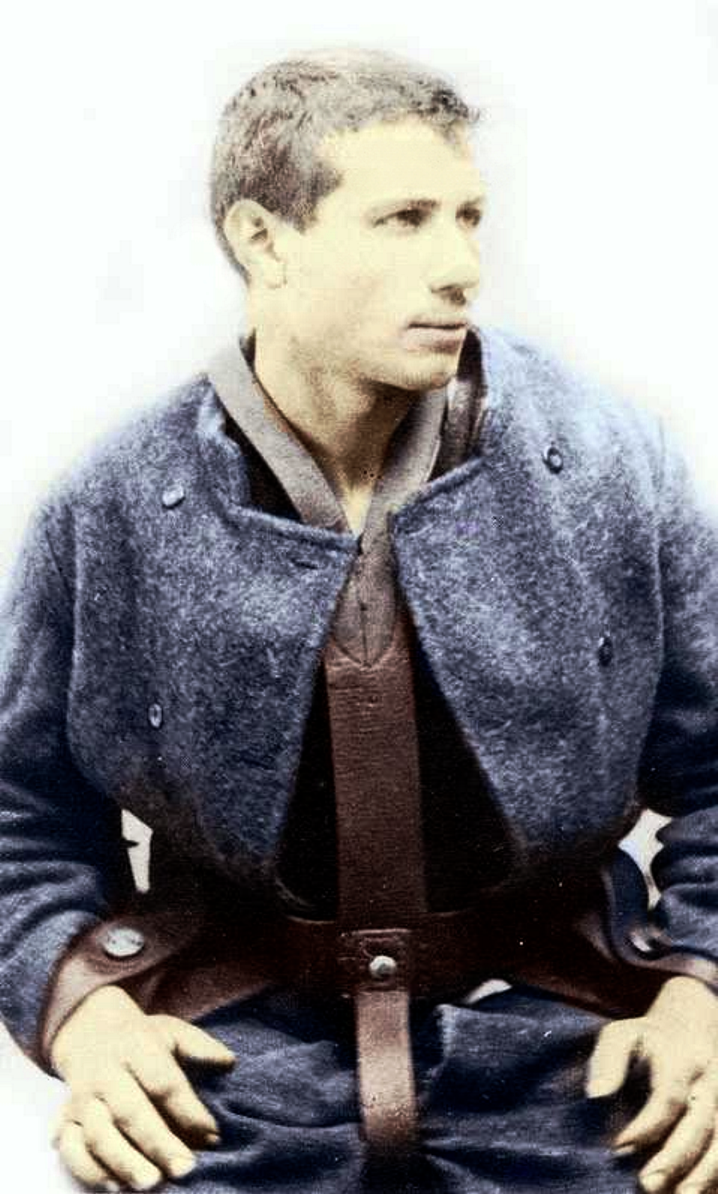 Italian Anarchist Sante Geronimo Caserio in a photo of the french police